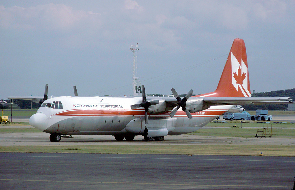 Northwest Territorial Airways Lockheed L-100-30 Hercules C-FNWY at London Stansted Airport